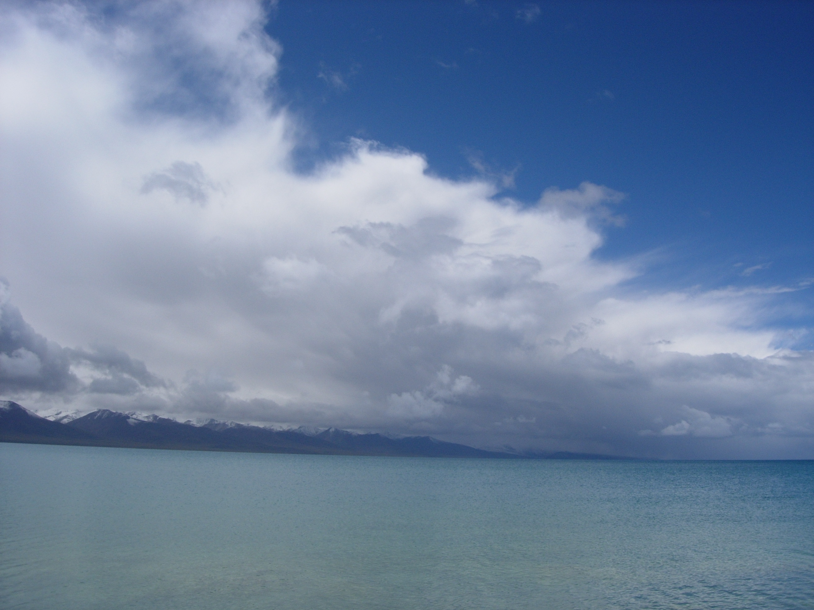 Namtso Lake in Tibet，China